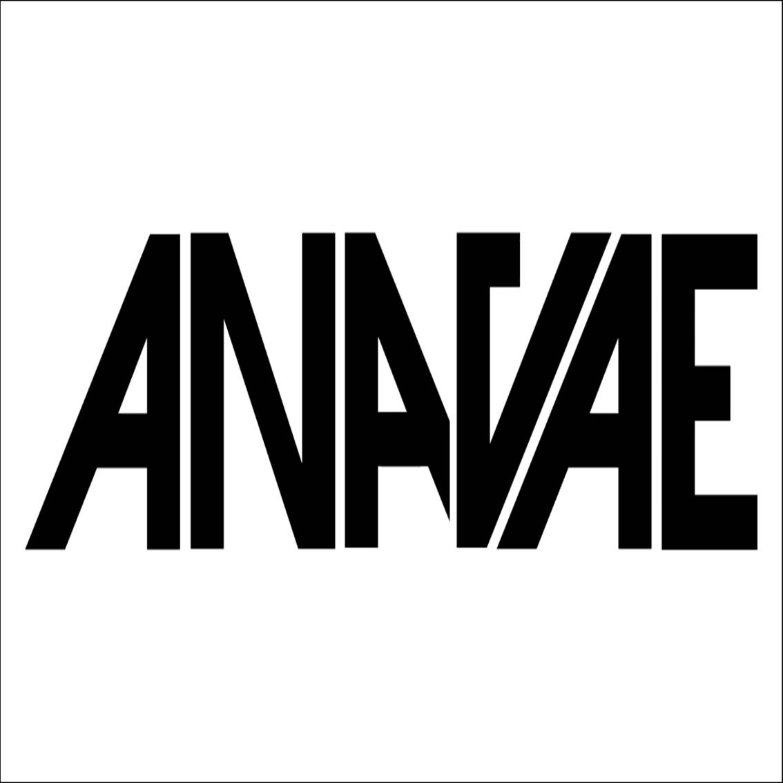 This is Anavae's logo